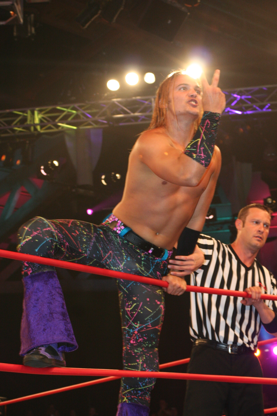 Professional wrestler Jeremy Buck (Nick Massie) at a TNA Impact! taping